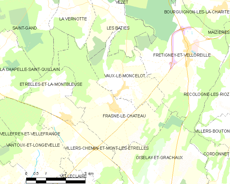 Map of French municipality